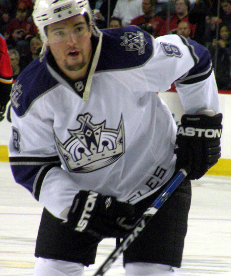 Los Angeles Kings defenceman Drew Doughty during warmup prior to a National Hockey League game against the Calgary Flames in Calgary.